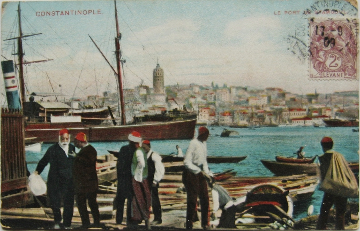 Postcard from 1909 or earlier showing a view of the port of Constantinople (Istanbul) on the Golden Horn. The Galata Tower is visible in the background. The poscard, bearing a French stamp inscribed Levant, was posted at the French post office at Galata, Constantinople, in 1909.